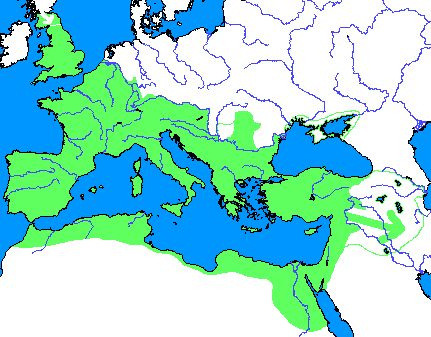 Roman Empire between 163 and 166